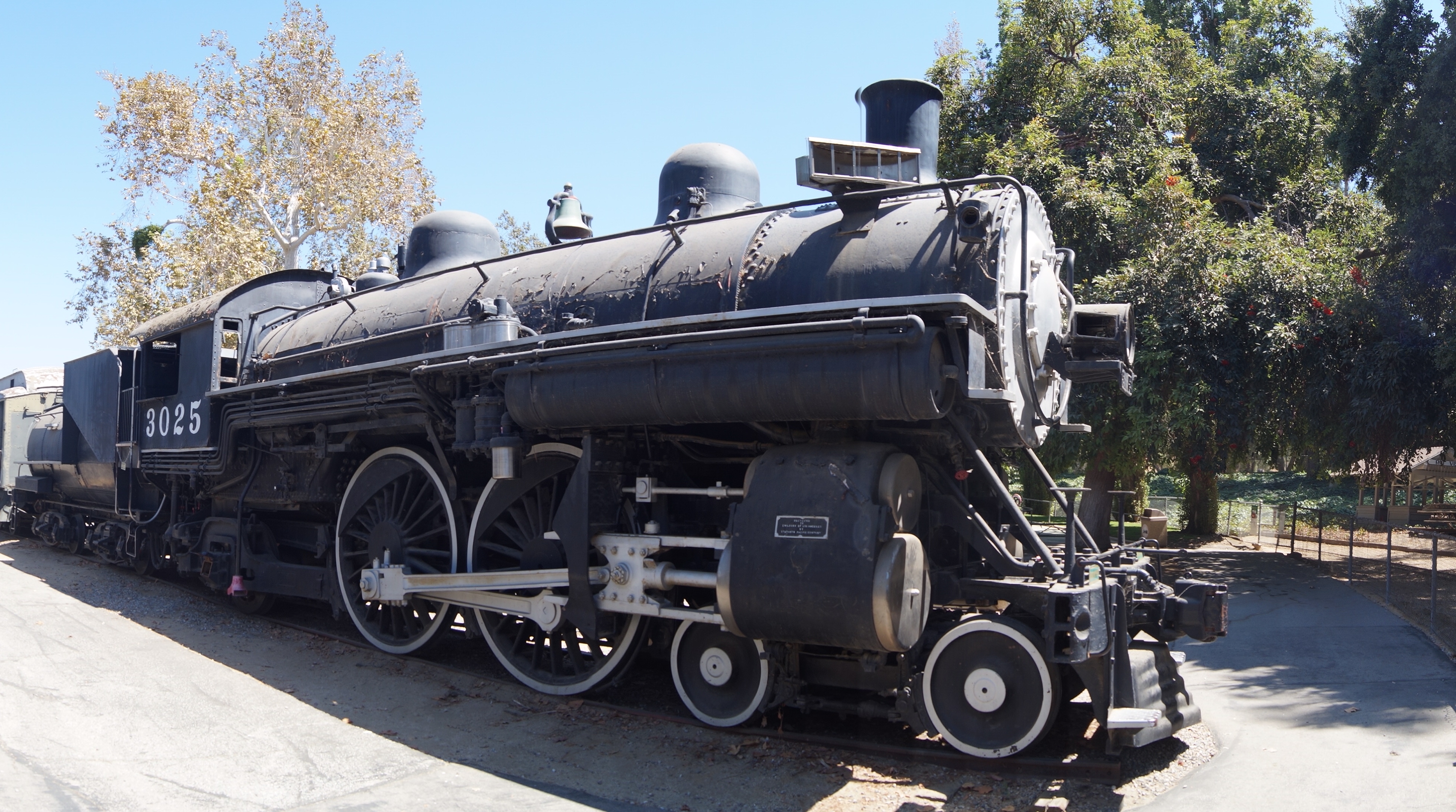 Travel Town Museum is a transport museum dedicated in the northwest corner of Los Angeles, California's Griffith Park. The history of railroad transportation in the western United States from 1880 to the 1930s is the primary focus of the museum's collection, with an emphasis on railroading in Southern California and the Los Angeles area.